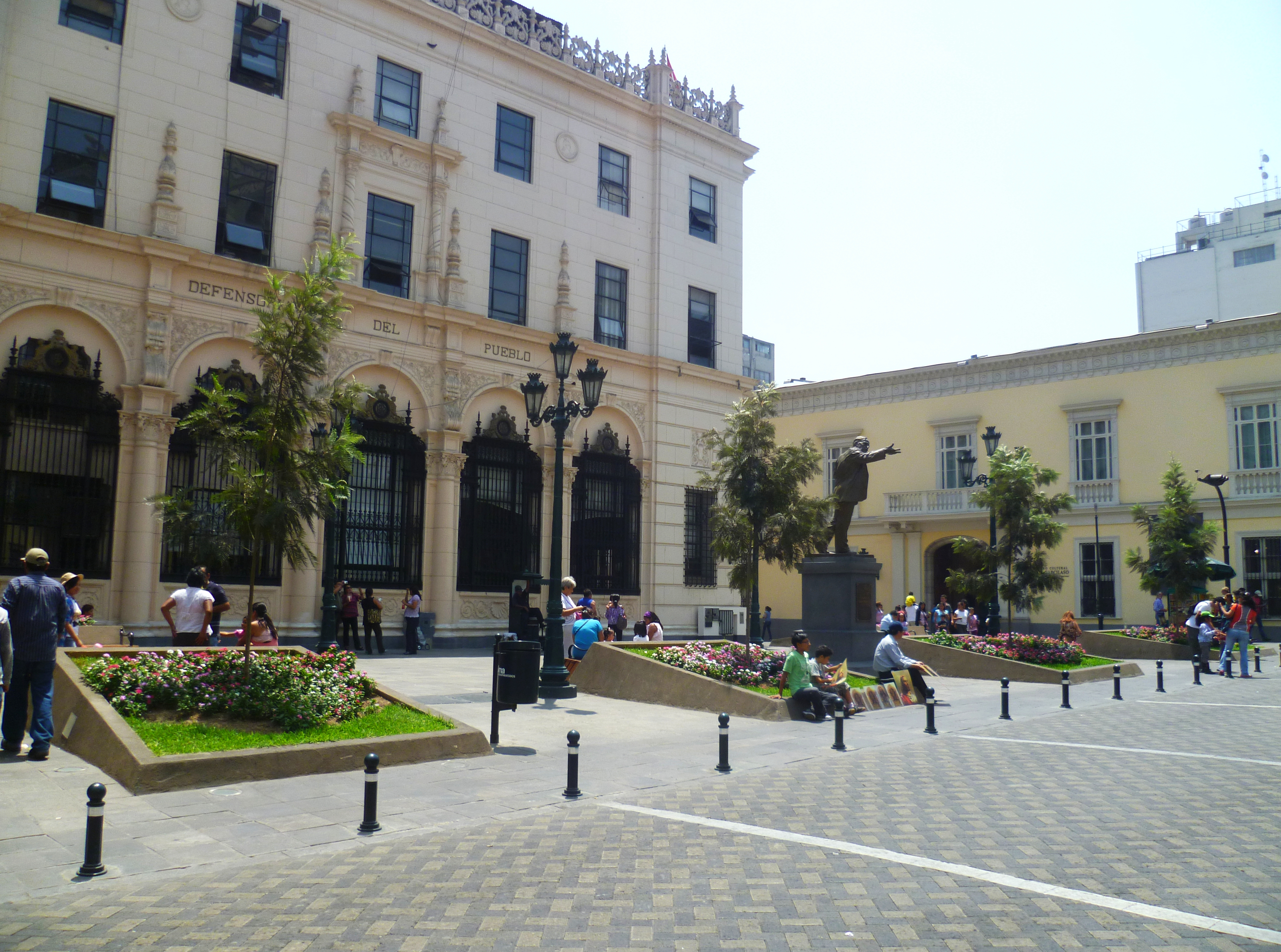 Lima, Peru downtown.